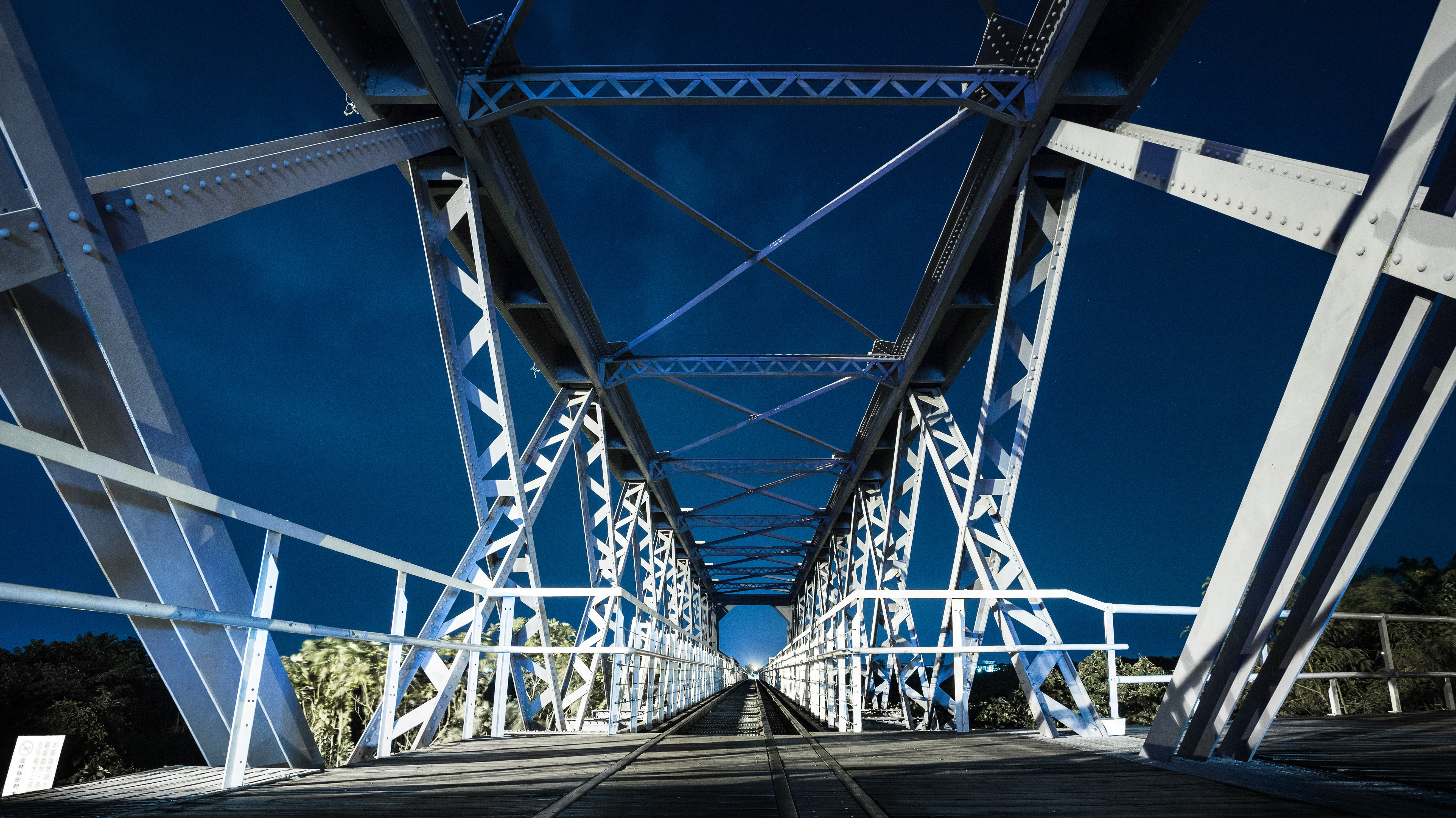 Huwei Steel Bridge, Huwei Township, Yunlin County, Taiwan.